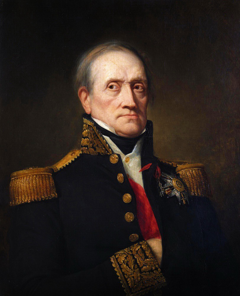 Jean-de-Dieu Soult (English Heritage, The Wellington Collection, Apsley House).